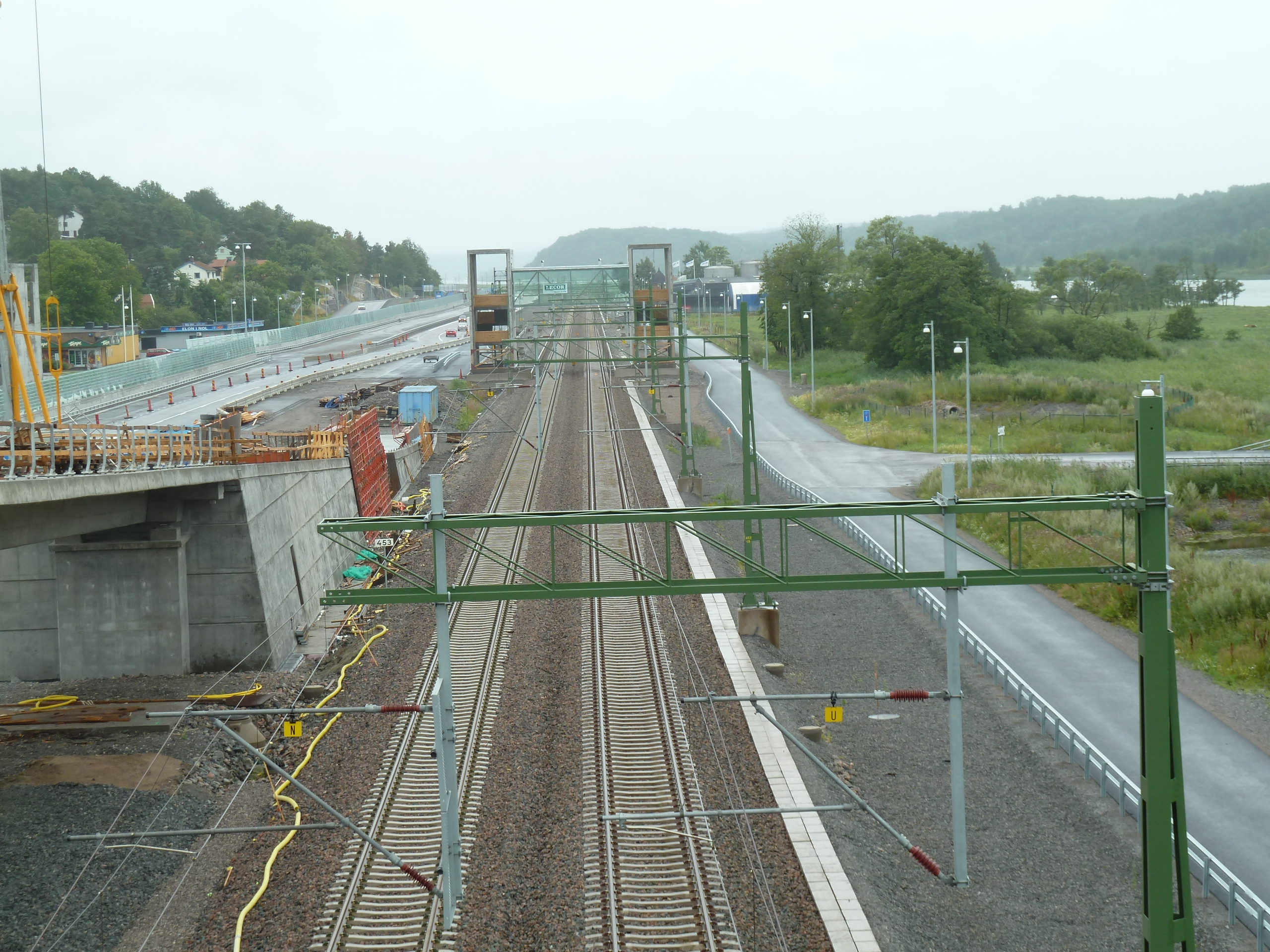 The newbuilt railway and the local train station under construction in Nol, Ale, Sweden